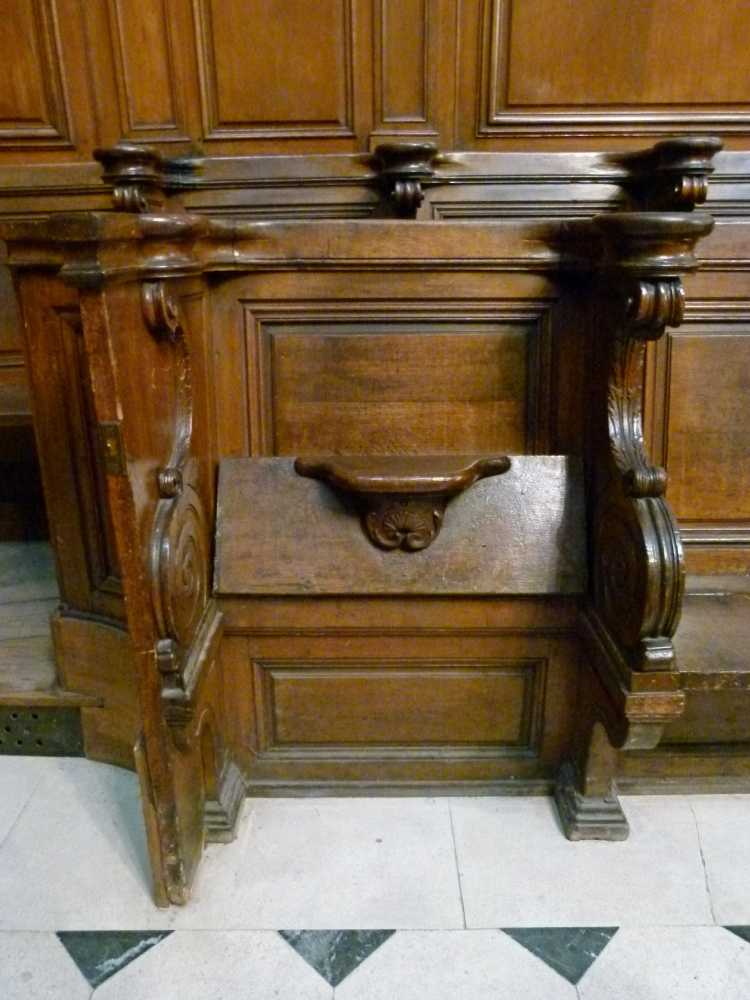 Stalls in l'Oratoire du Louvre, which originated in Saint-Louis-du-Louvre. Showing the seat raised with the 'Misericorde' designed to relieve fatigue for the monks and canons while standing to sing.